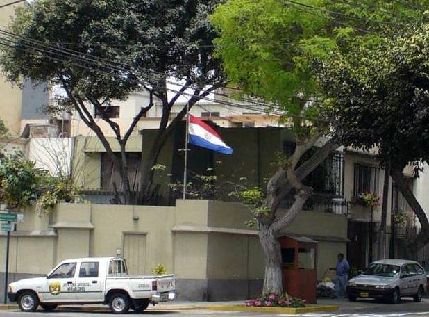 Embassy of Paraguay in Lima.